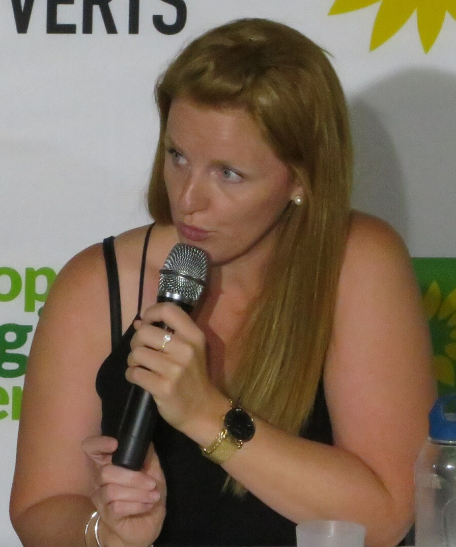 Ingrid Levavasseur, Journées d'été EELV, Toulouse, France, 2019-08-22